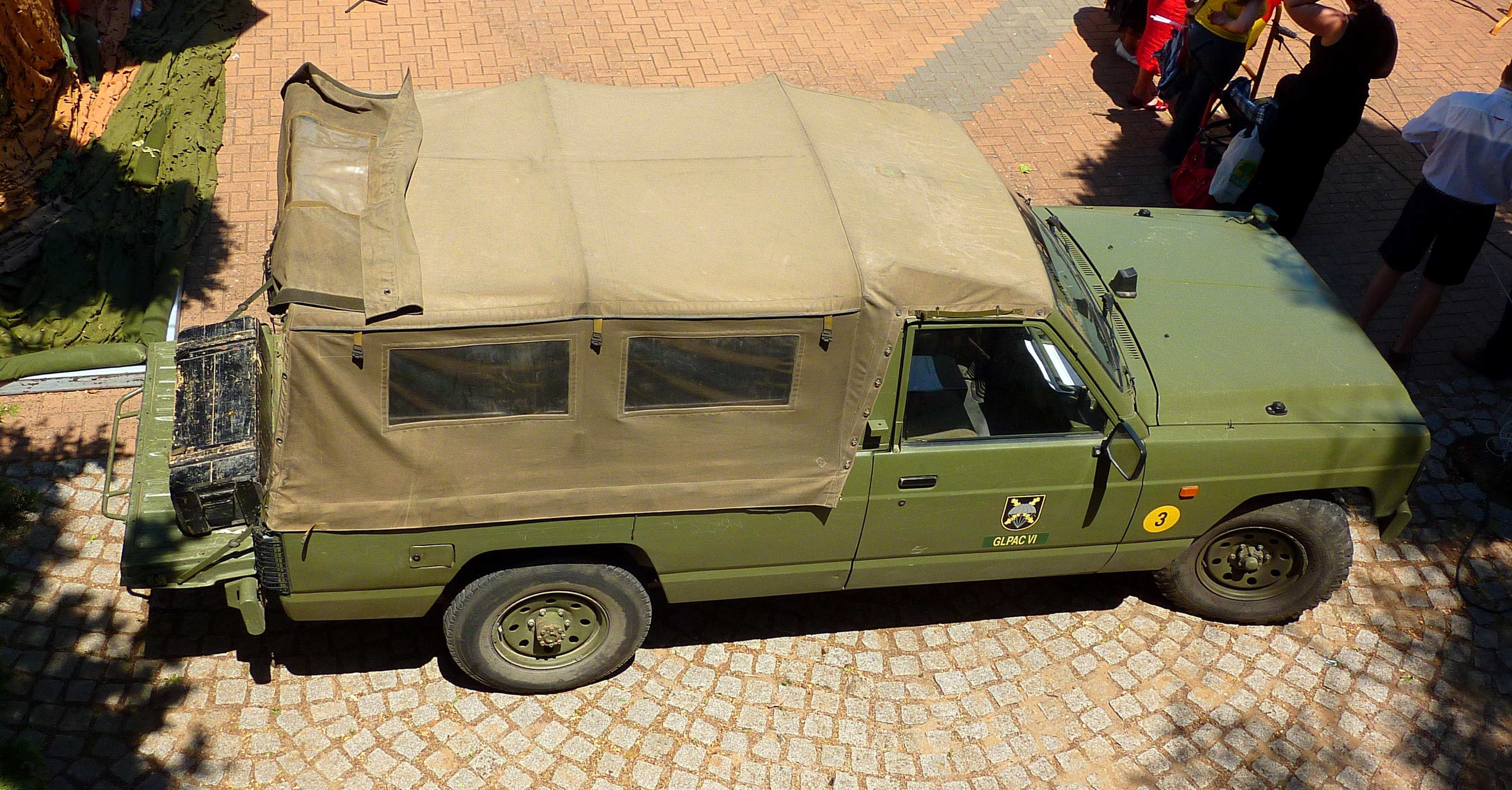 Nissan Patrol ML-6 of the Spanish Army.